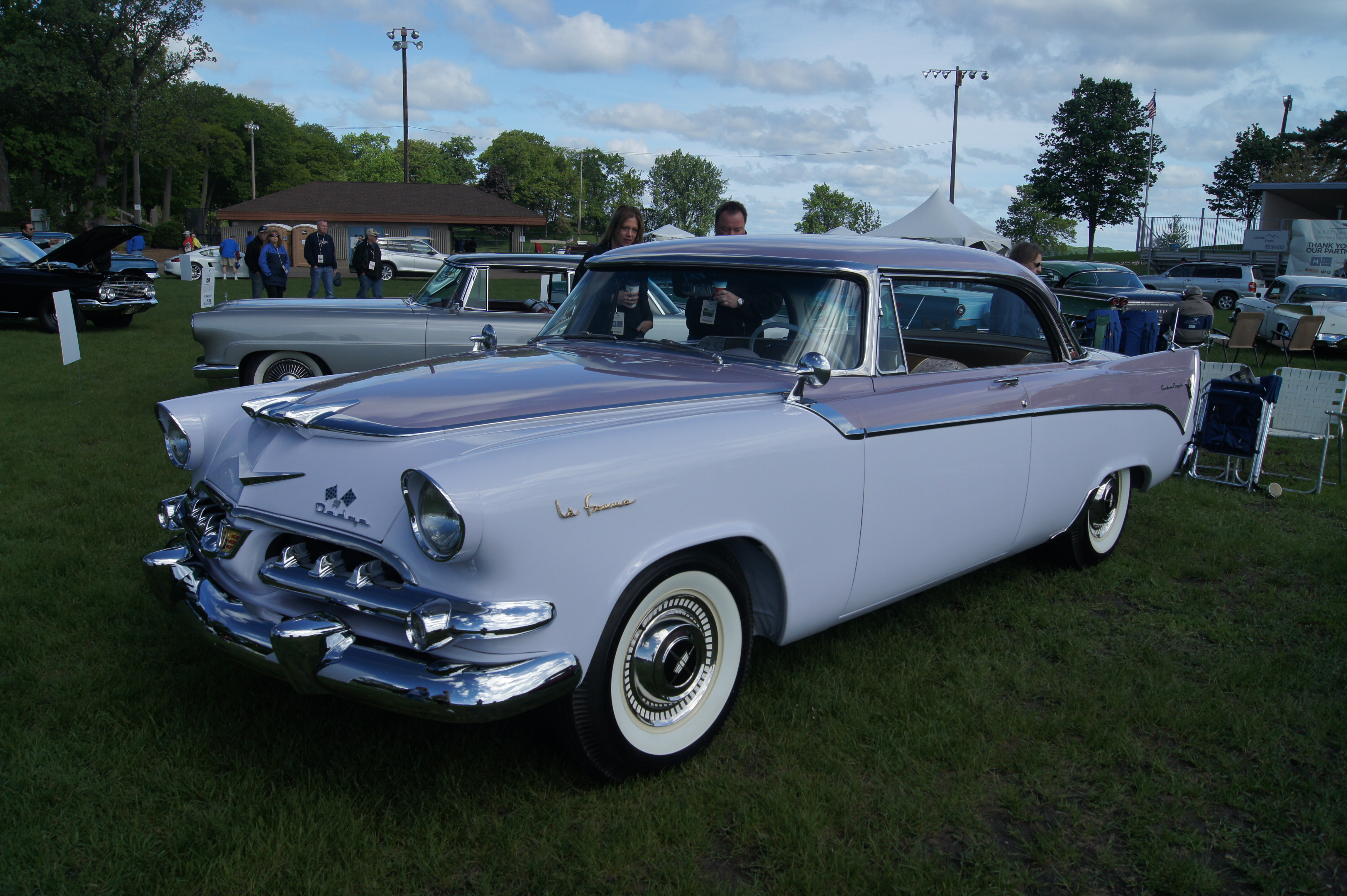 Inaugural 10,000 Lakes Concours d'Elegance to Benefit Courage Center Foundation June 2, 2013 Excelsior Commons Excelsior Minnesota Thousands of car pictures at the link below